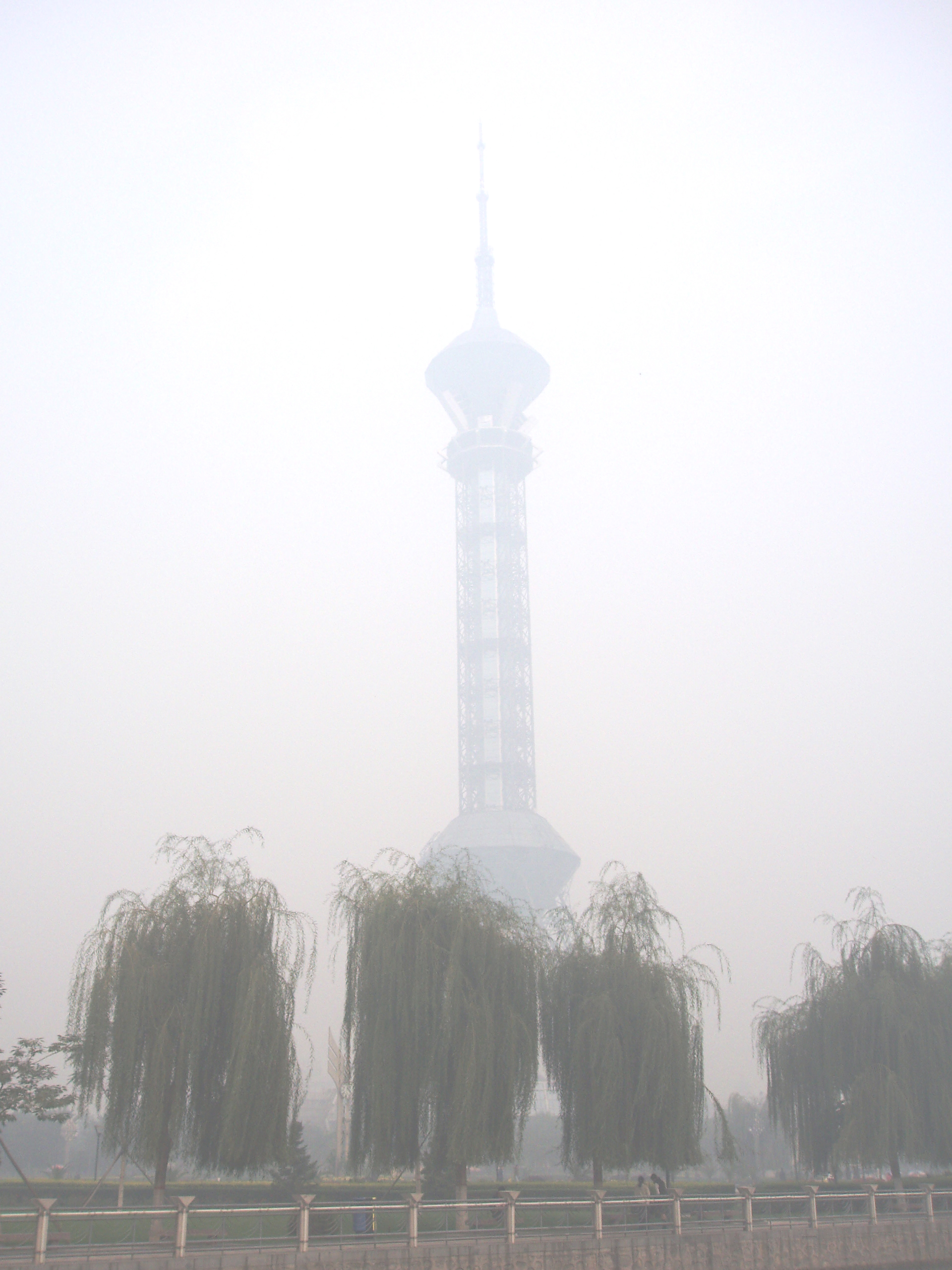 TV Tower in Shijiazhuang, China